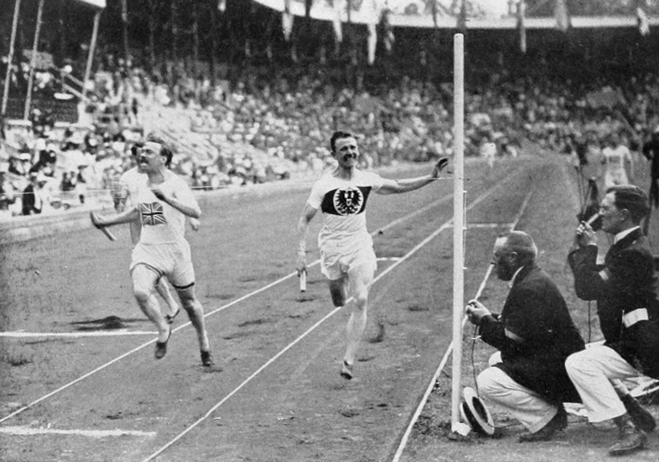 The final of the men's 4x100 metre relay at the 1912 Summer Olympics. Victor d'Arcy on the left [1][2] winning the race for Great Britain. On the right finishing second but later disqualified, Richard Rau for Germany.